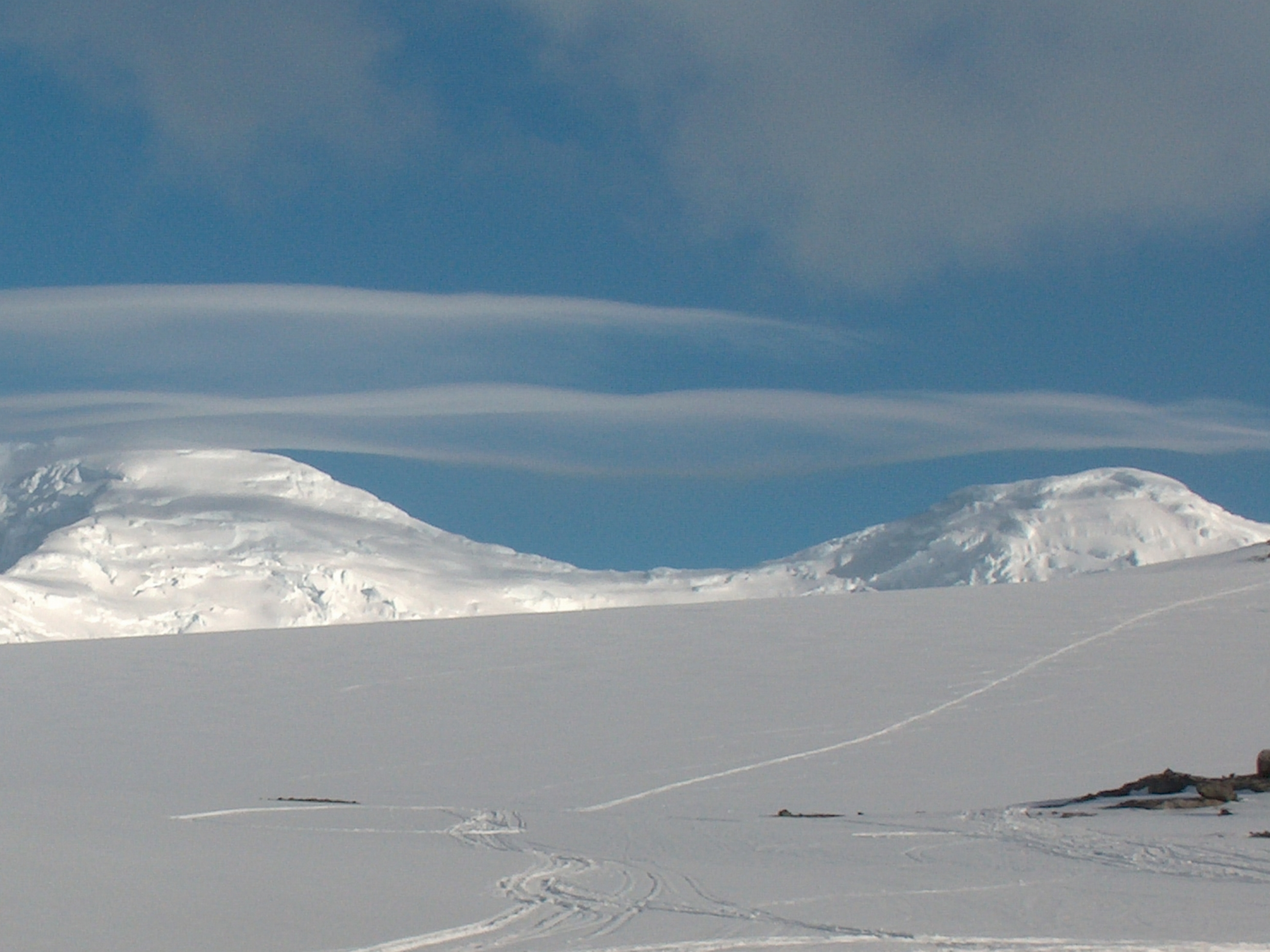 Paril Saddle on Livingston Island, Antarctica seen from St. Kliment Ohridski Base